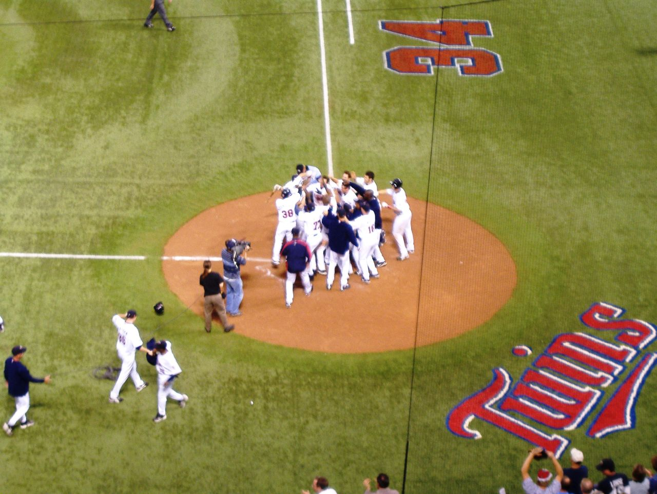 Baltimore Orioles at Minnesota Twins, Hubert H. Humphrey Metrodome, Minneapolis, Minnesota